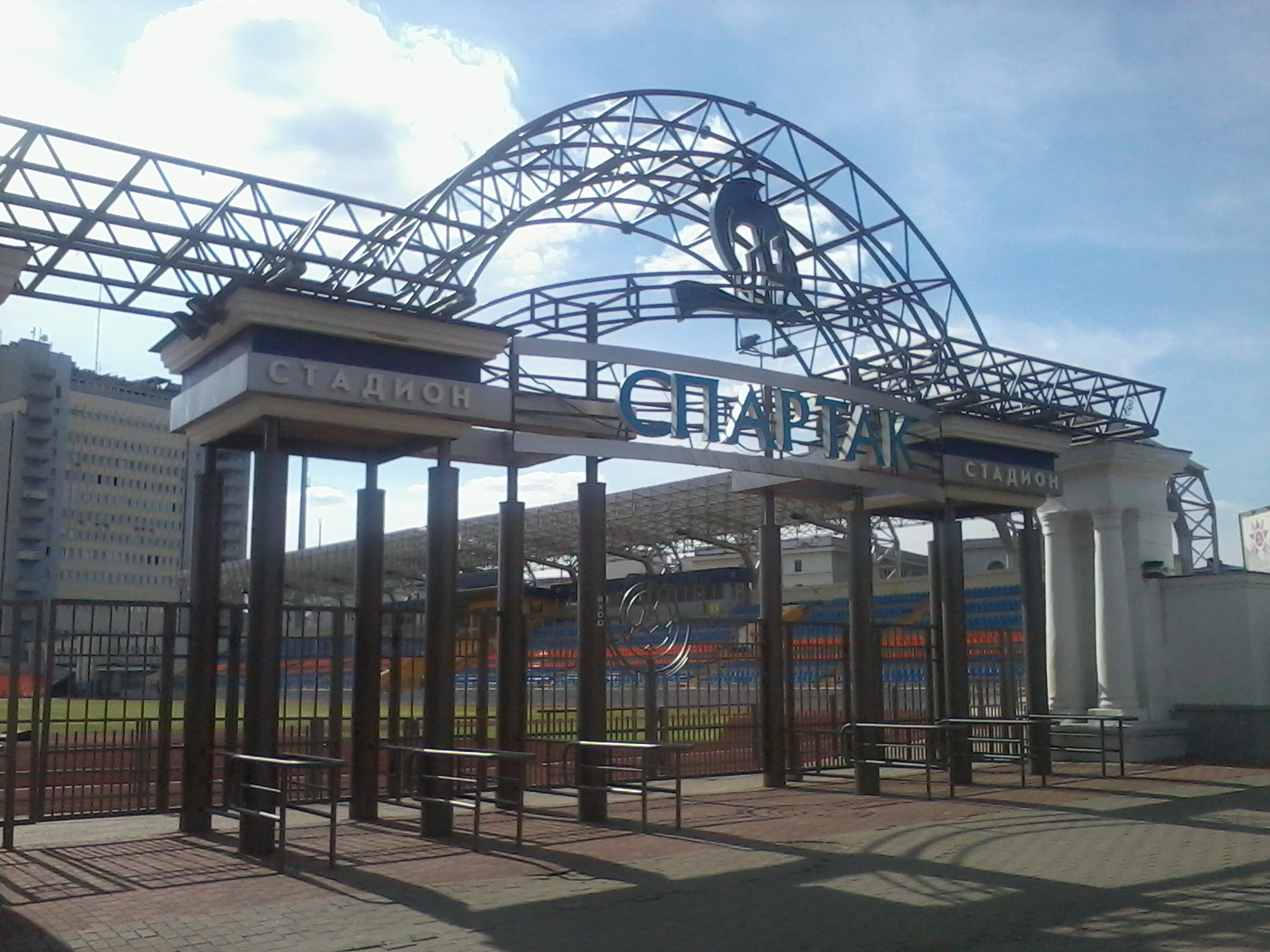 Spartak Stadium, Mahilioŭ